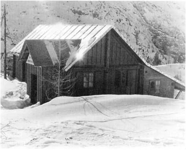 The cosmic ray laboratory in Passo Fedaia, Dolomites, in 1952. The Nobel laureates Fermi, Blackett and Powell were visitors.